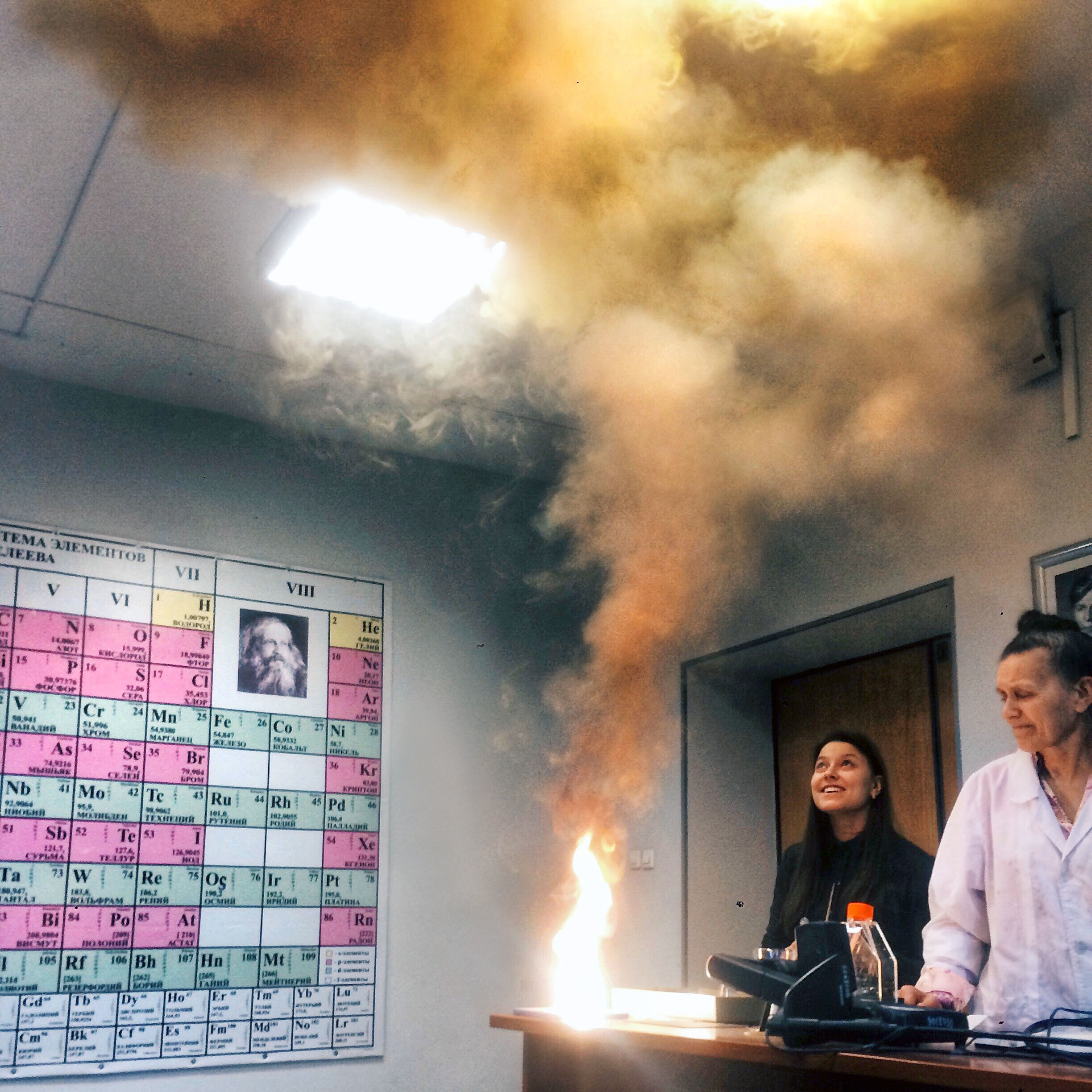 Processed with VSCO with hb2 preset